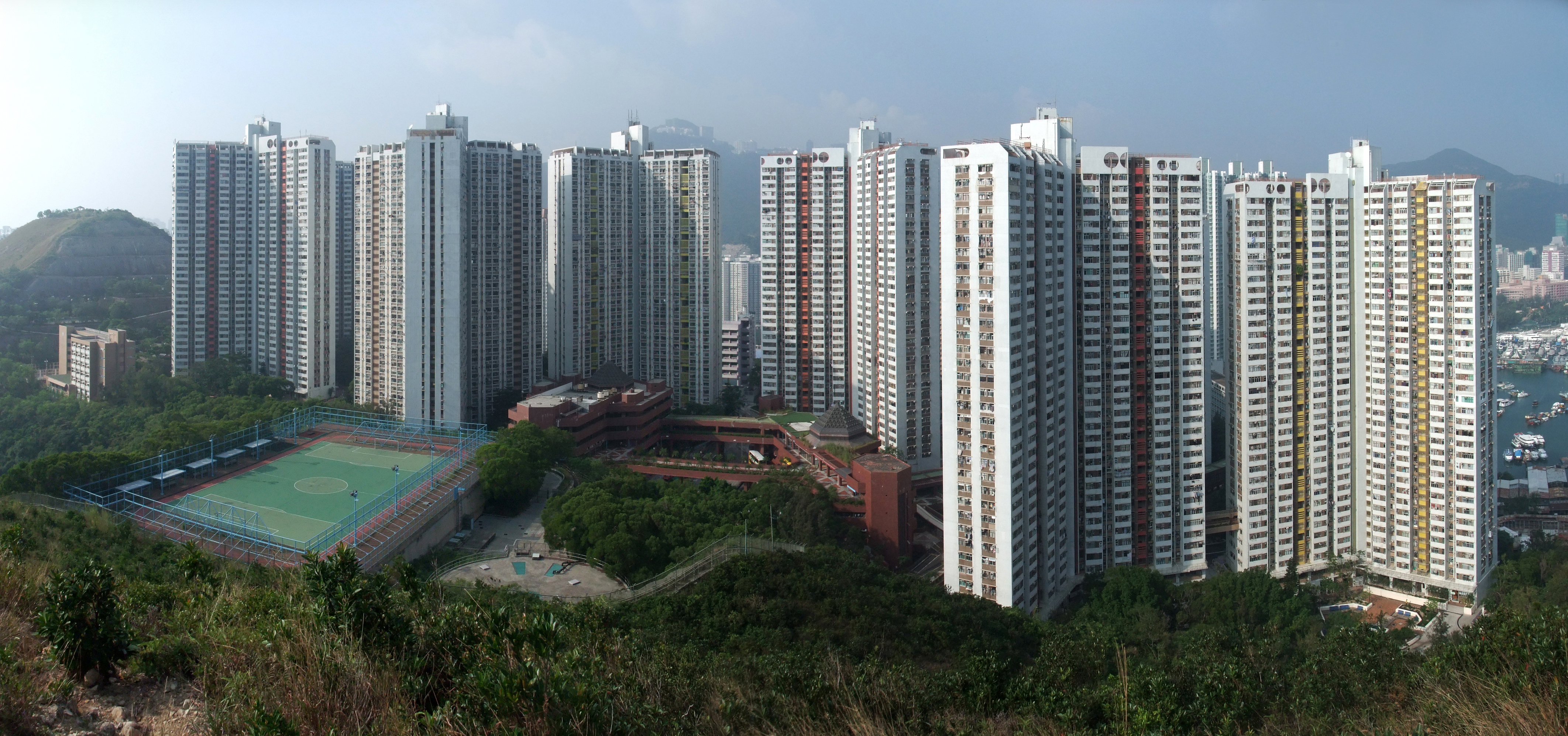 Panoramic photo of Lei Tung Estate, combined from 2974569826, 2974576636, 2973730391 and 2973737103